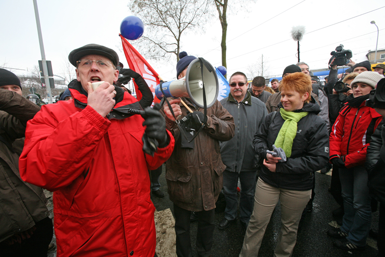 Bodo Ramelow at Dresden Nazifrei on 13 February 2010, with other politicians of The Left